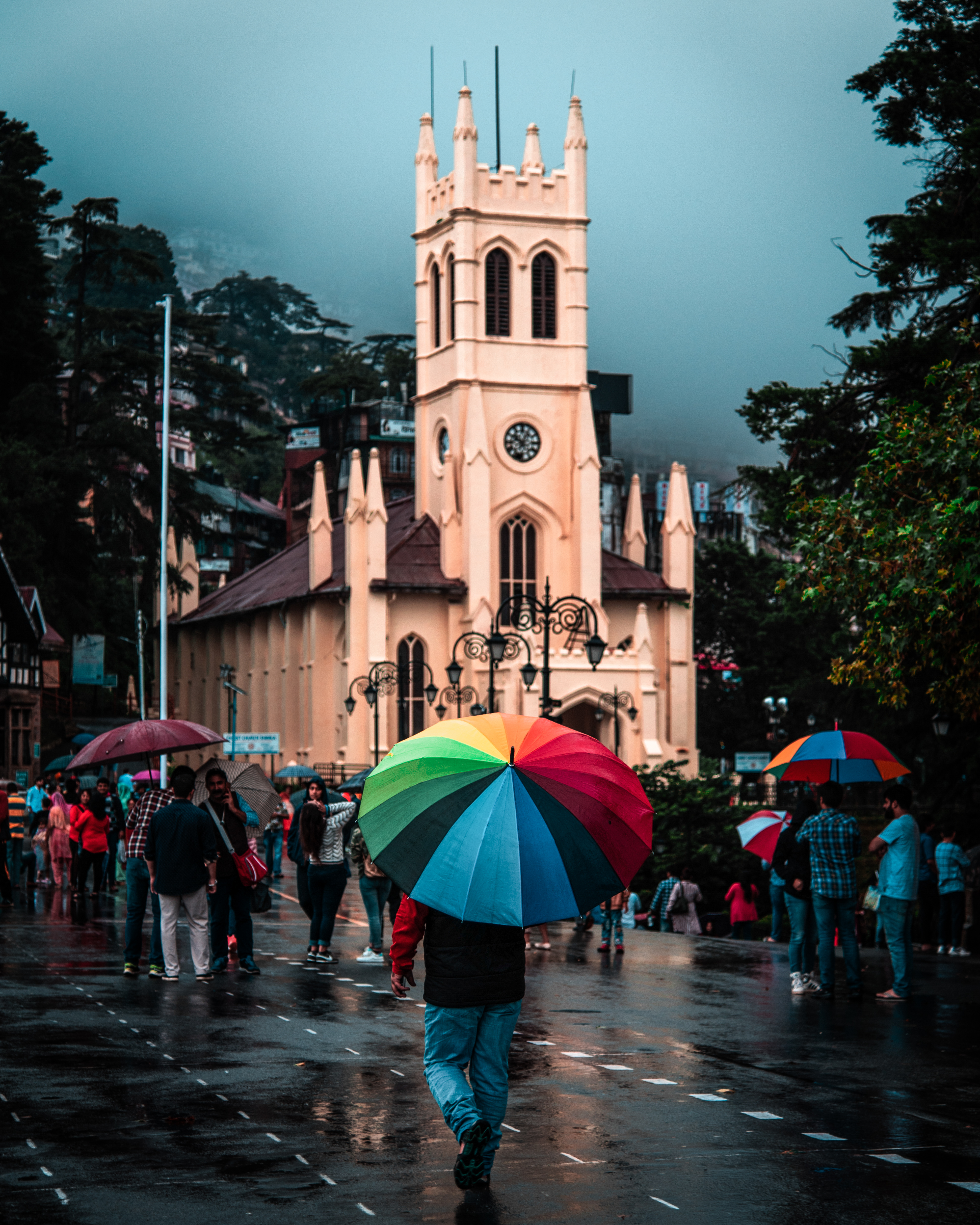 Christ Church, Shimla, is North India's second-oldest church. The British constructed it in 1857. Located at the ridge, it is impossible to miss if you are visiting Shimla. The stained glass windows of the Church represent faith, hope, love, strength, patience, and humanity.